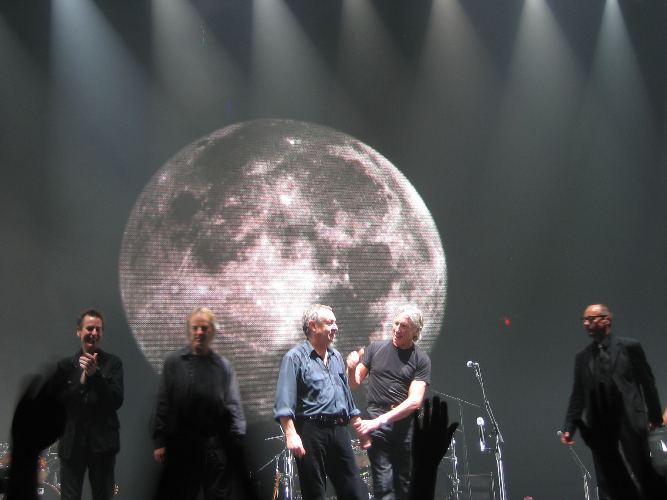 Roger Waters at Earls Court, London. Pink Floyd drummer Nick Mason joined the group, alongside drummer Graham Broad for Dark Side during the Saturday show.